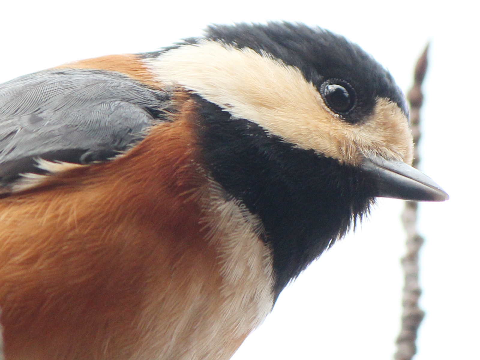 Head of Varied Tit (Sittiparus varius or Parus varius or Poecile varius) in Mount Miroku, Tajimi, Gifu prefecture, Japan.